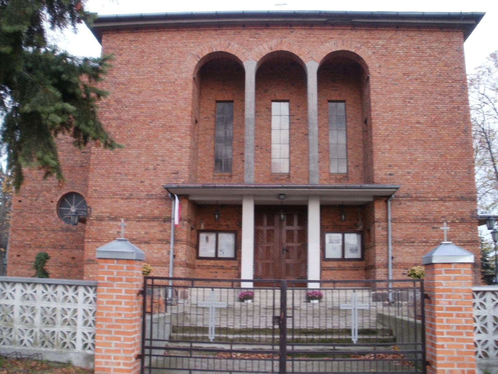 St. Nicholas Church in Wszembórz (gate)